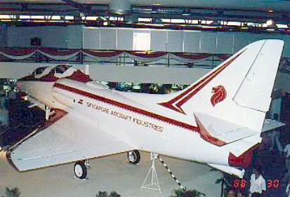 A TA-4SU Skyhawk mock up on display at the stand of Singapore Aircraft Industries (SAI) at Asian Aerospace (AA), 30 January 1988.